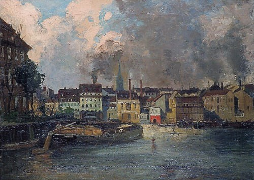 Painted ca. 1910, Oil on canvas, 47 x 66 cm